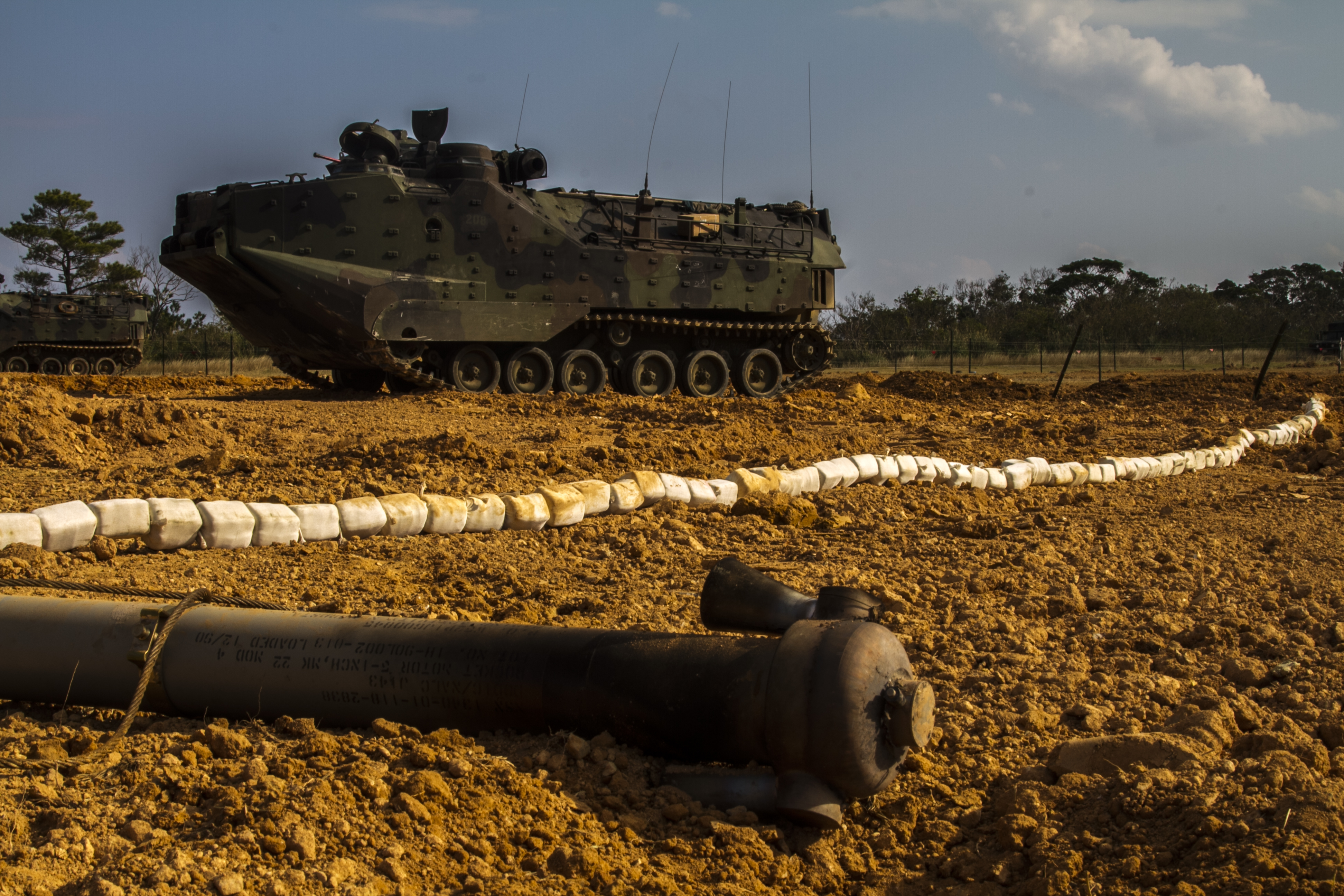 A Mine-clearing line charge lies off to the side as an Amphibious Assault Vehicle rolls past during a deliberate defense breaching exercise Jan. 22 at LZ Dodo in the Central Training Area. The MCLC is a line of high explosives projected into a mine field and detonated to trigger nearby mines allowing safe passage of ground troops afterward. The AAV is with Amphibious Assault Company, Combat Assault Battalion, 3rd Marine Division, III Marine Expeditionary Force. (U.S. Marine Corps photo by Lance Cpl. Stephen D. Himes/Released)